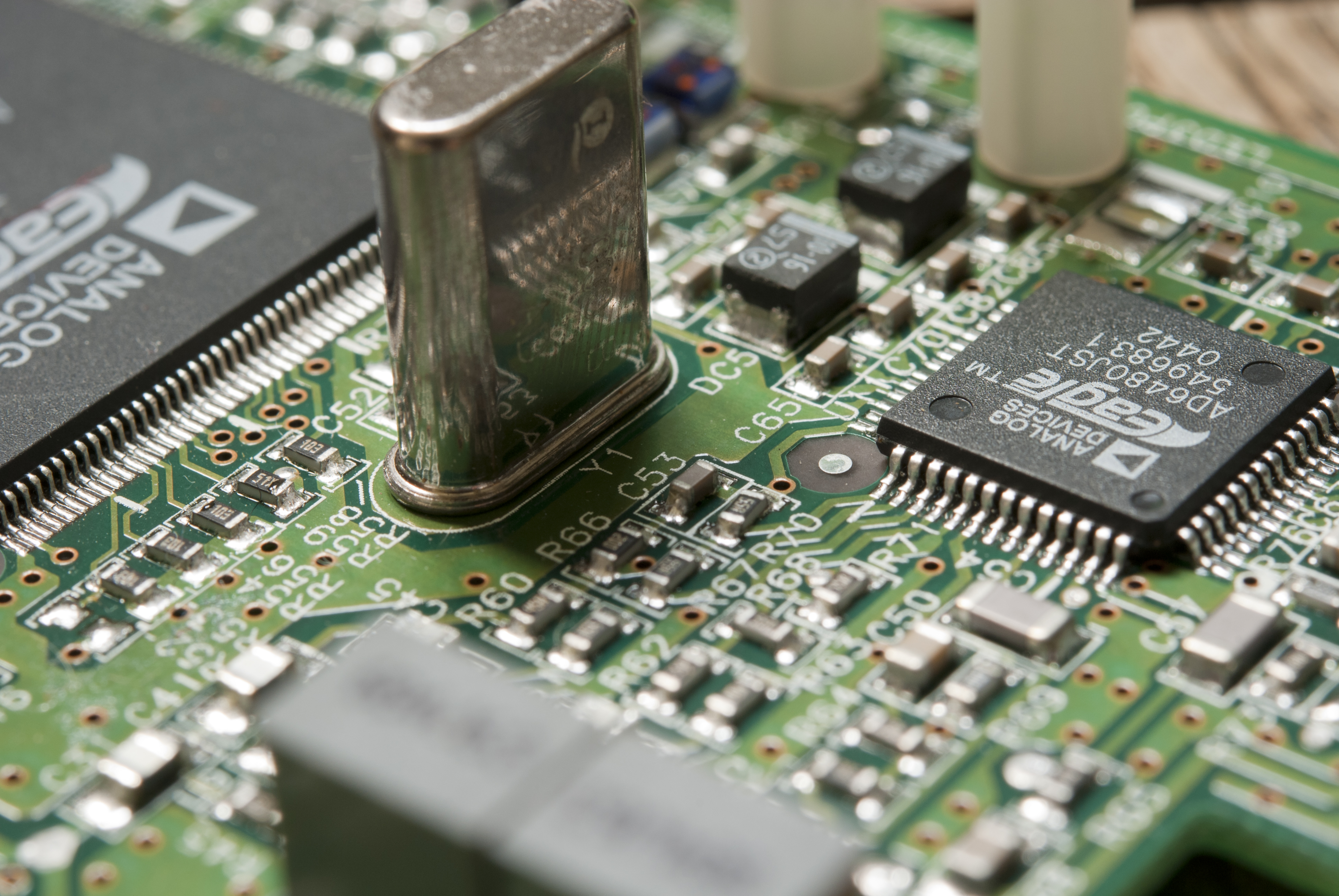 Example of a part of printed circuit board (of a ADSL analogic modem) and internal integrated circuits.